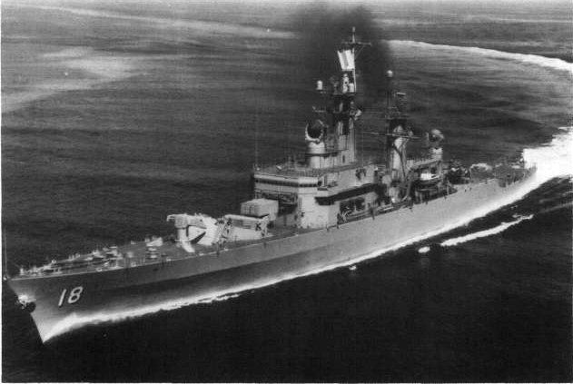 The U.S. Navy guided missile cruiser USS Worden (DLG-18) underway at high speed, in the 1960s. Note that she only has two AN/SPG-55B fire control radars. The other two were fitted in 1970.